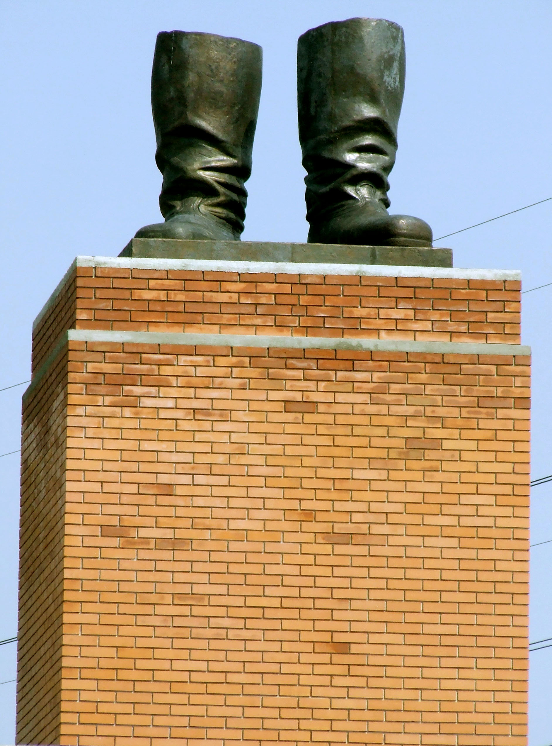 Stalin's Boots - in Memento Park (Szoborpark), near Budapest